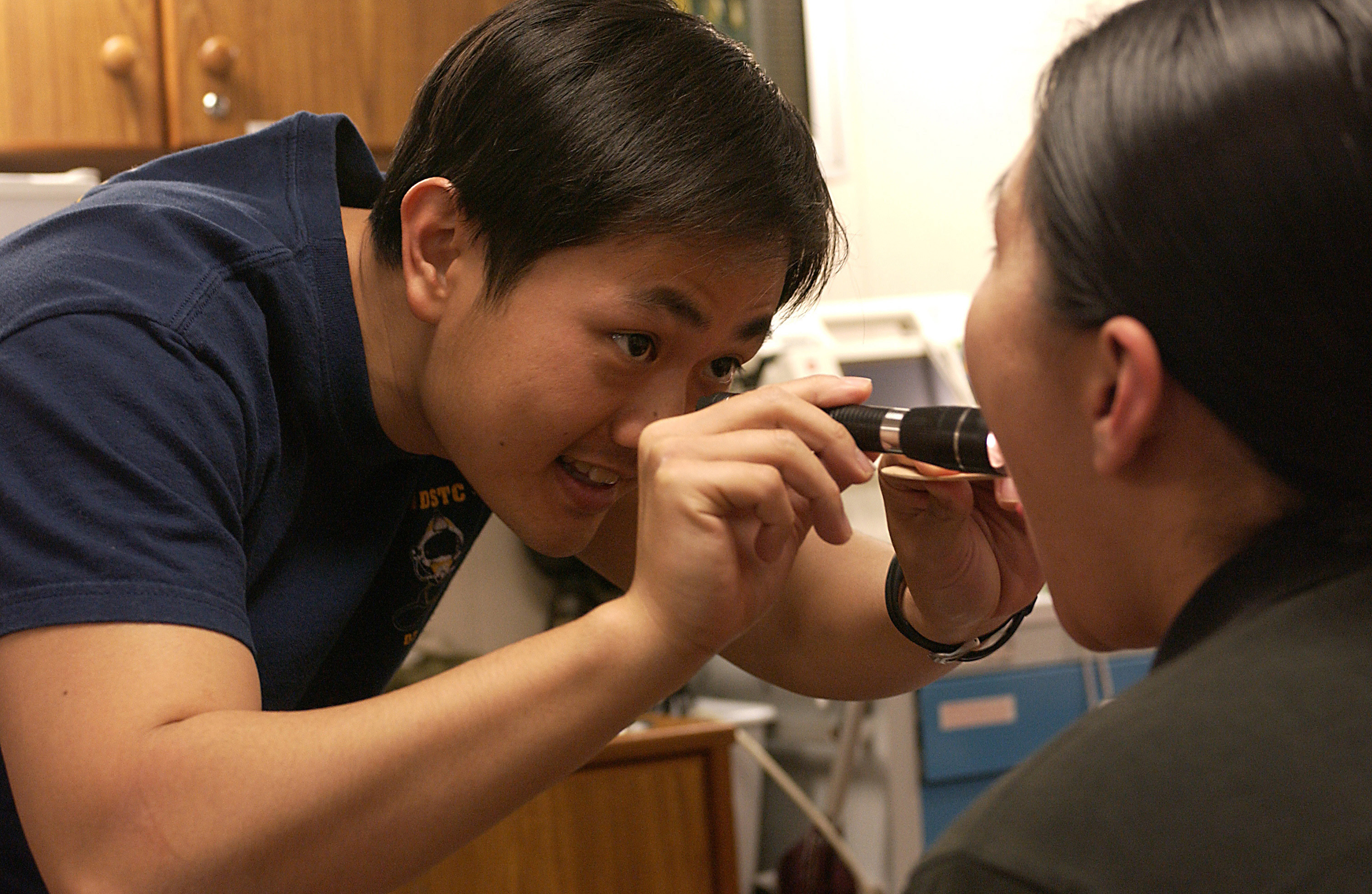 Northern Arabian Sea (Jan. 13, 2004) -- Capt. Wan Mun Chin examines a patient suffering from a sore throat and high fever. Capt. Wan is assigned to the Republic of Singapore tank landing ship RSS Endurance (L 207). Endurance is participating in a 15-nation coalition exercise Sea Saber 2004. Endurance will participate as both a compliant and non-compliant vessel for boarding teams. Sea Saber will provide a multi-tiered training scenario in locating weapons of mass destruction aboard suspect ships operating in waters currently patrolled by coalition forces in support of Operations Enduring Freedom and Iraqi Freedom. U.S. Navy photo by Journalist 1st Class Jeremy L. Wood. (RELEASED)